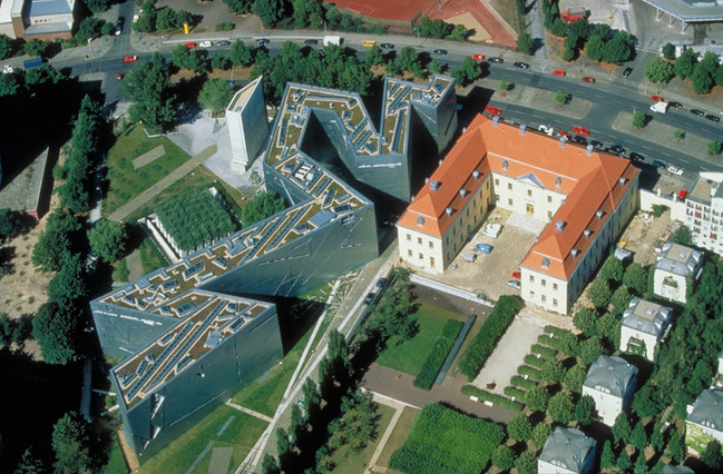 An aerial view of the museum proper, the Holocaust Tower, and the Garden of Exile at the Jewish Museum Berlin, designed by Daniel Libeskind. The U-shaped structure on the right is the Kollegienhaus, the former Baroque Prussian courthouse which has since been converted into part of the Berlin Museum.